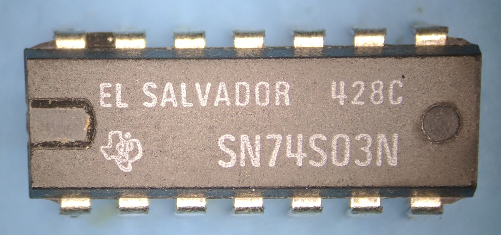 Top of package of a Texas Instruments 74S03 chip, datecode 428C.